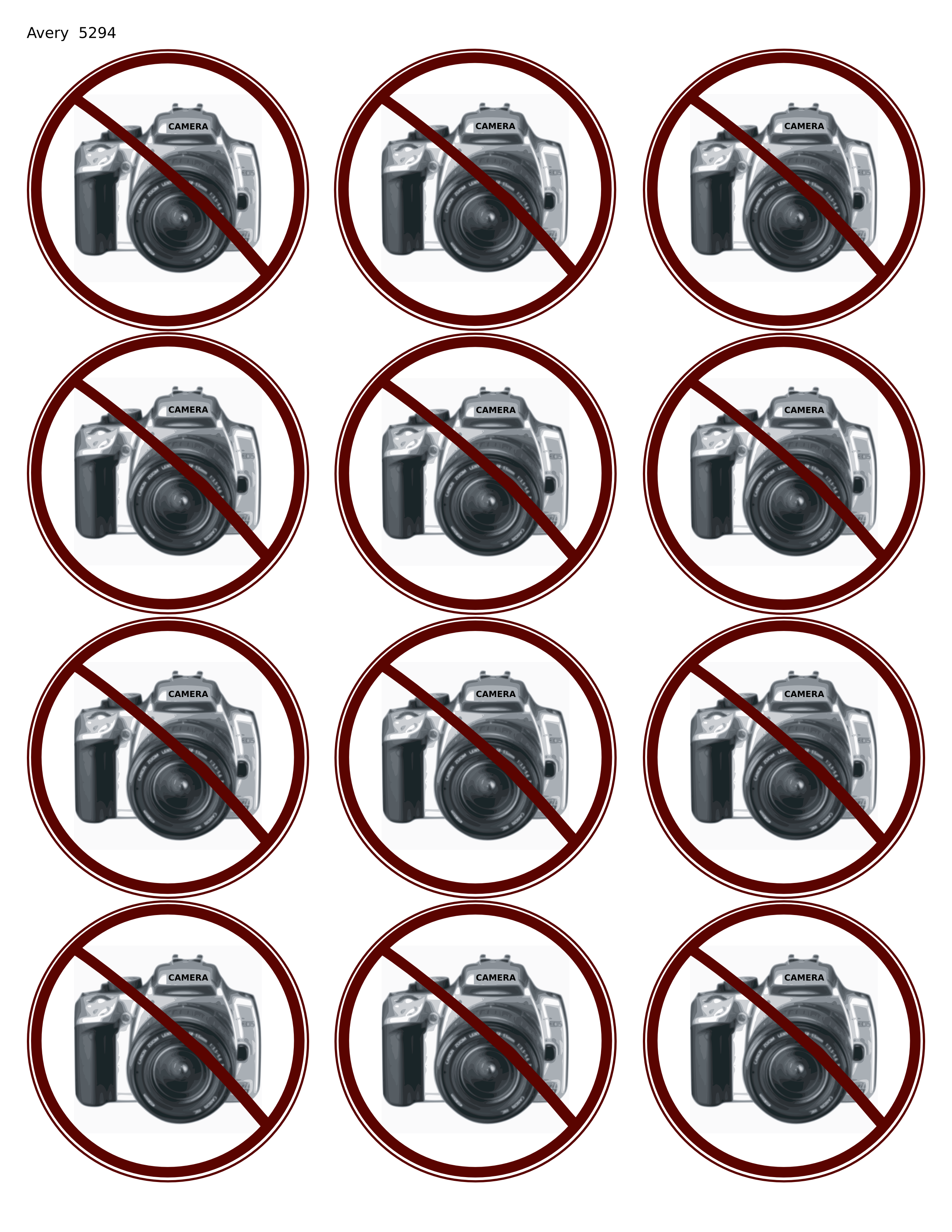 "No photographs" sticker. Designed for persons at conferences who do not want any digital likeness of them taken, including video, photography, audio, etc... This full-page image is ready to print with Avery 5294 2.5in dia. stickers. The original svg file is uploaded under the same file name with the svg extension.